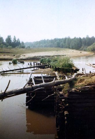 Ob' - Yenisey channel 3